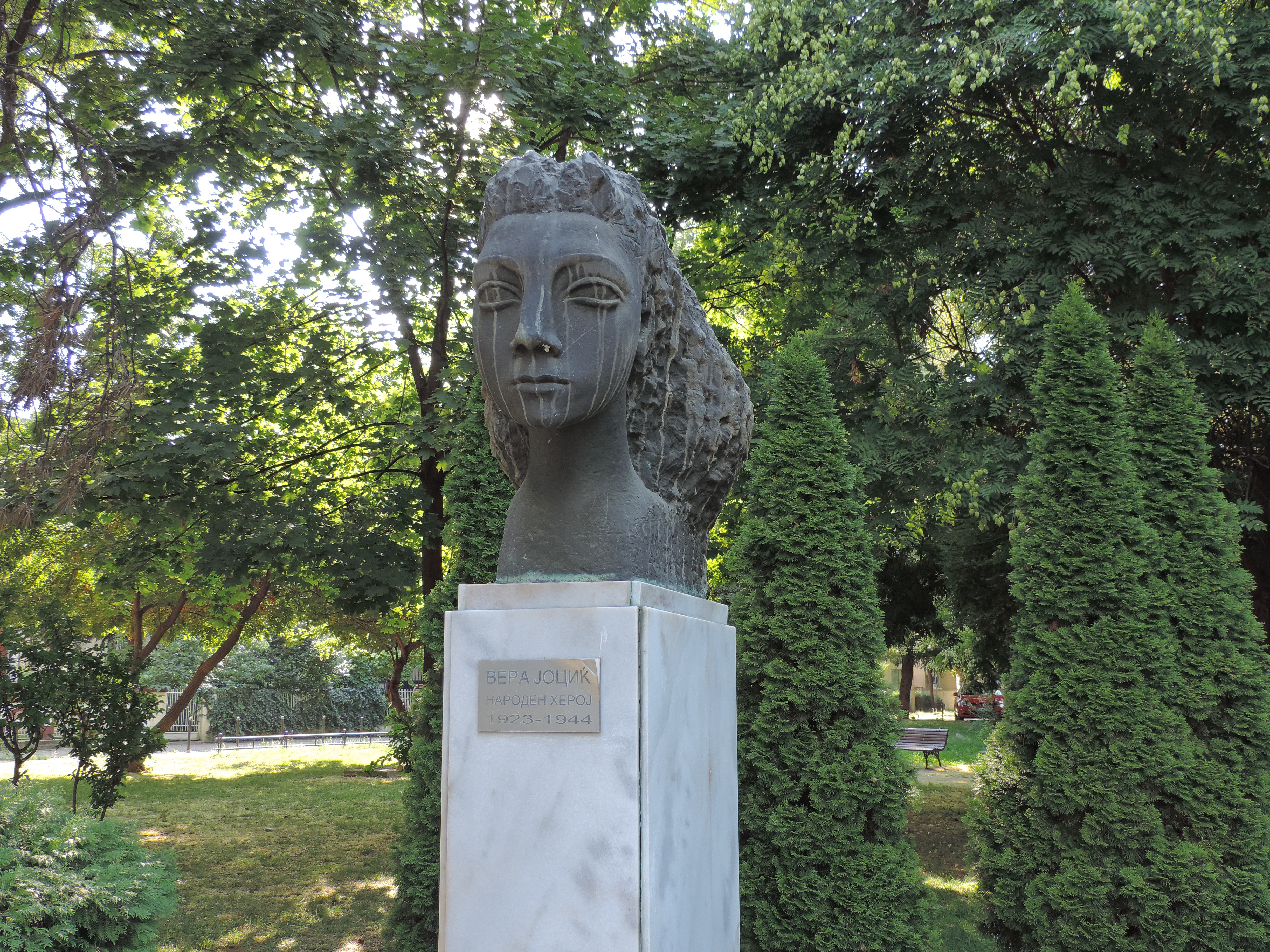 Vera Jocić monument, Skopje, Repubic of Macedonia